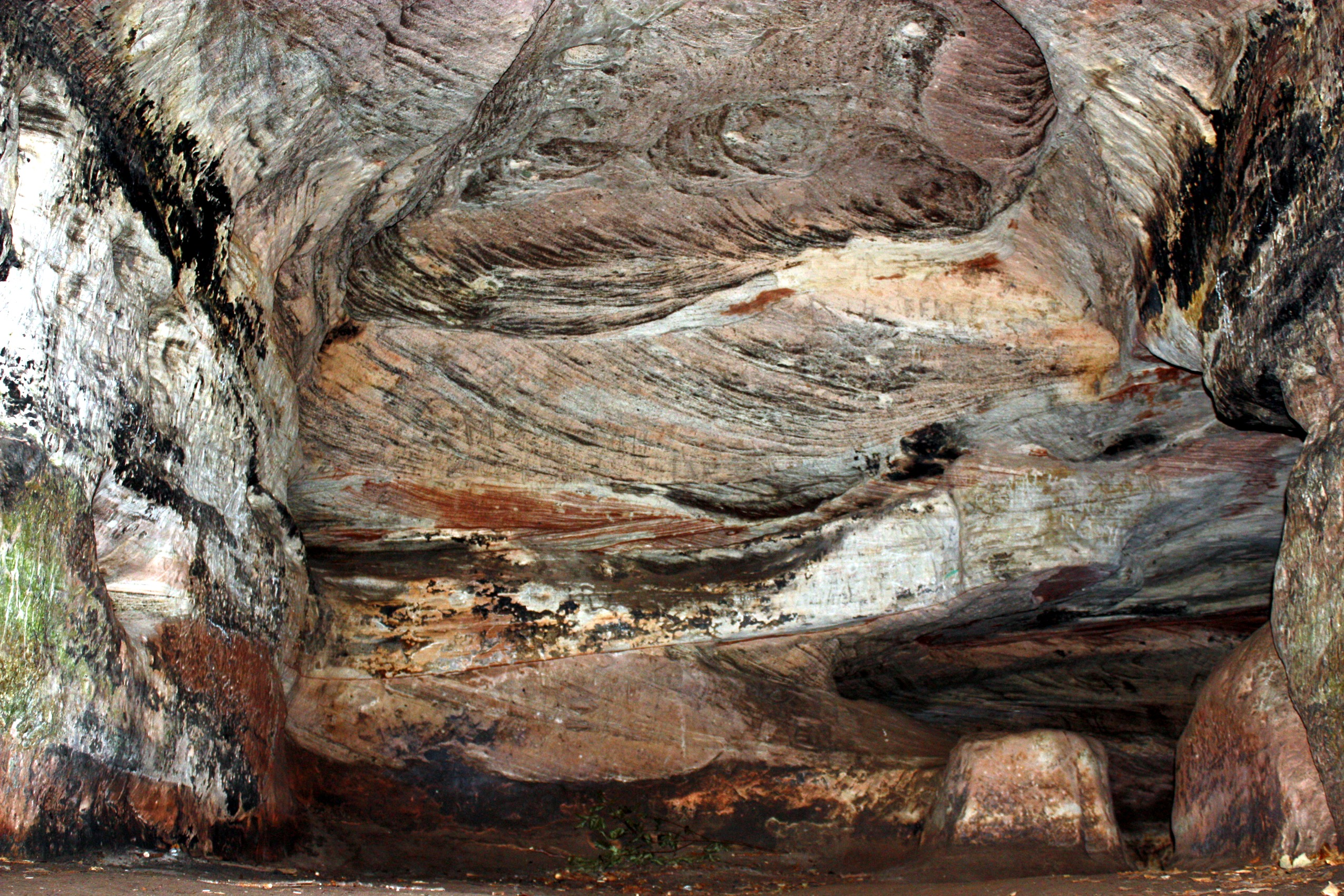 Huy (Saxony-Anhalt), the Daneils Cave, inner view